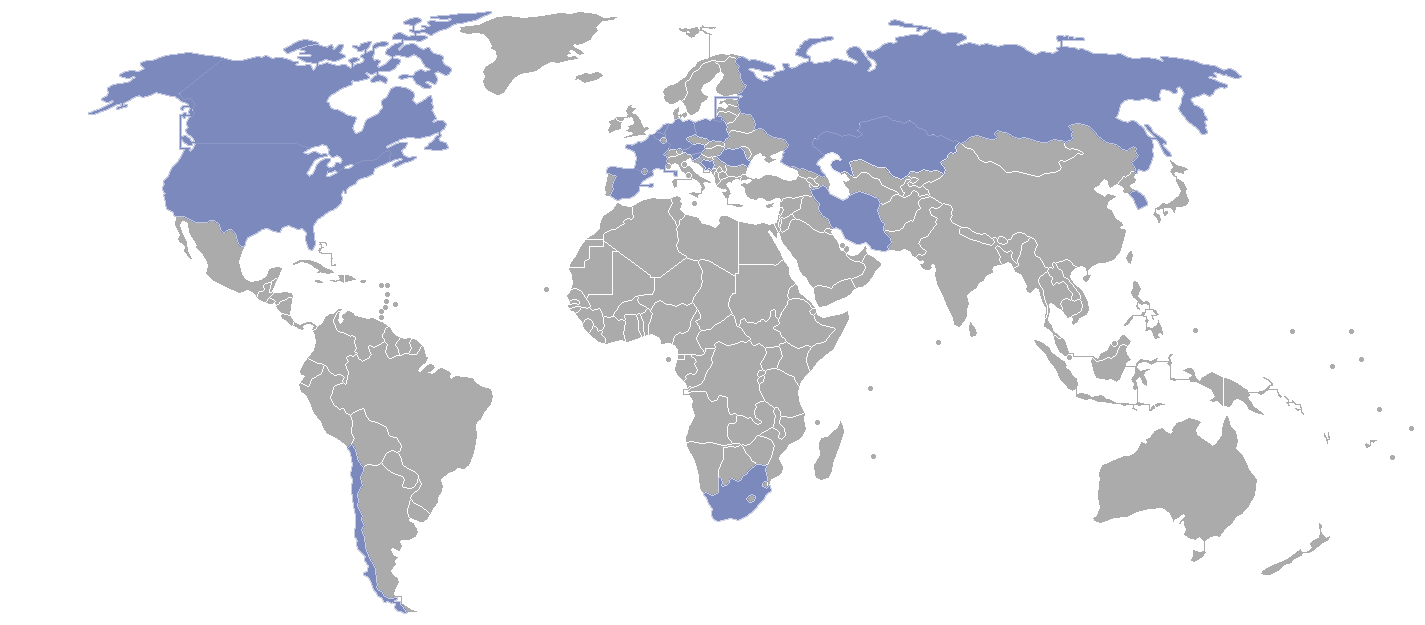 Countries participating in the competition for the Golden Bear 2013 (incl. coproduction countries)